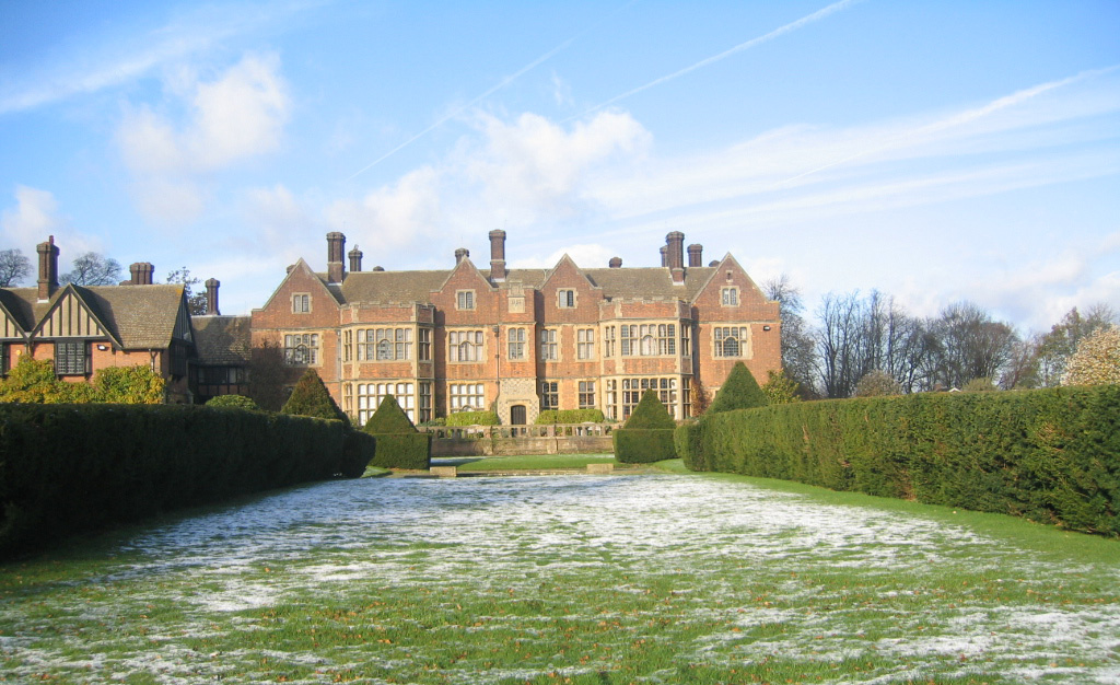 University of Bedfordshire - Putteridgebury campus Category:Luton